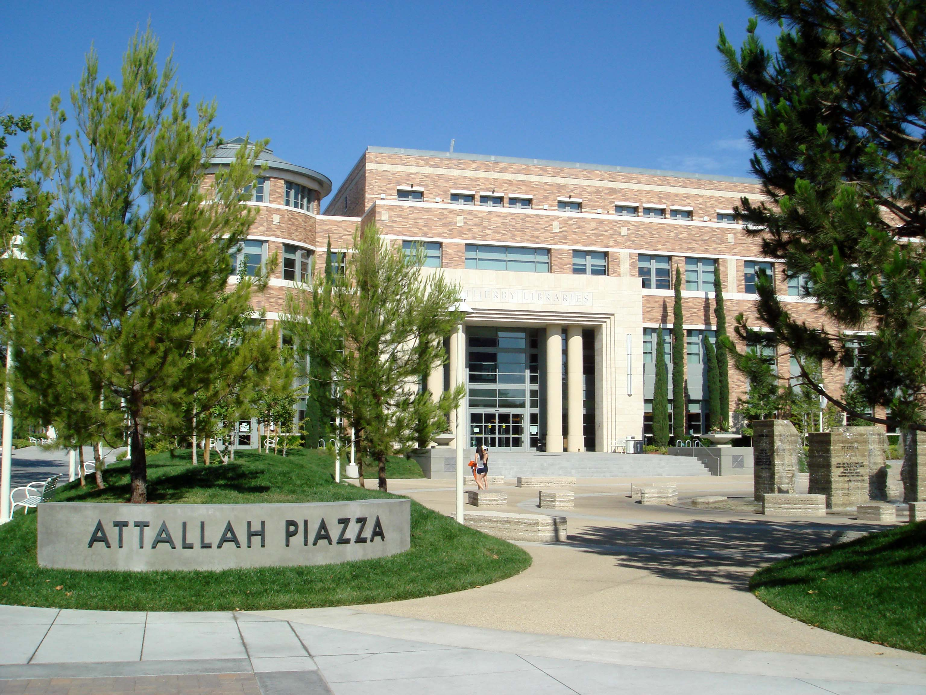 Library at Chapman University, in the city of Orange, California. Pictured are Attallah Piazza (replacing the Central Quad in Dec. 2007) and the Leatherby Libraries.